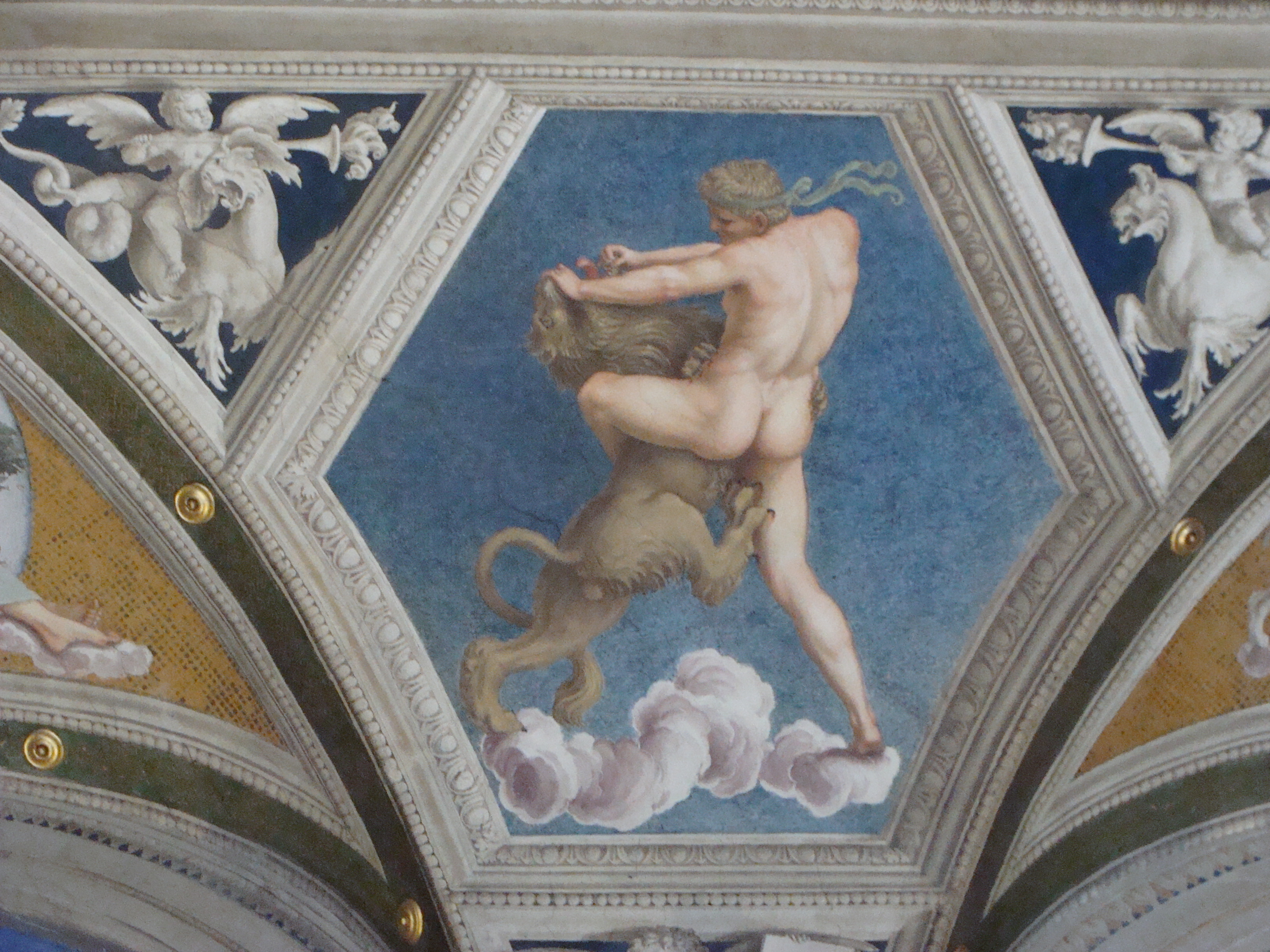 Hercules and the Nemean lion in Villa Farnesina ceiling, Rome